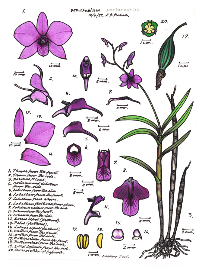 This is from a scan of the original illustration of Dendrobium bigibbum (or syn. Dendrobium phalaenopsis) by Lewis Roberts.